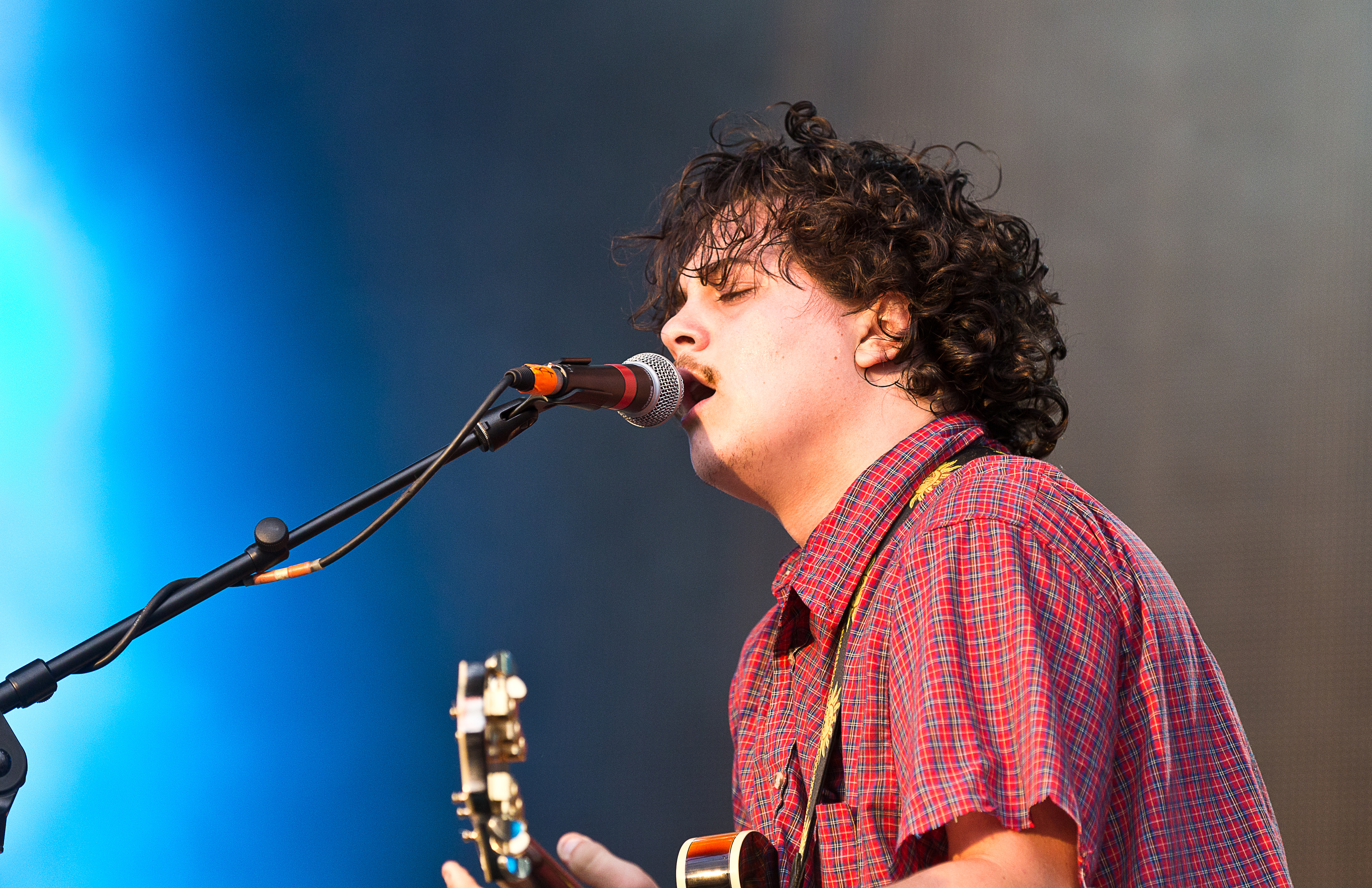 The American indie rock band The Districts at the Melt! 2015 in Ferropolis/Germany.